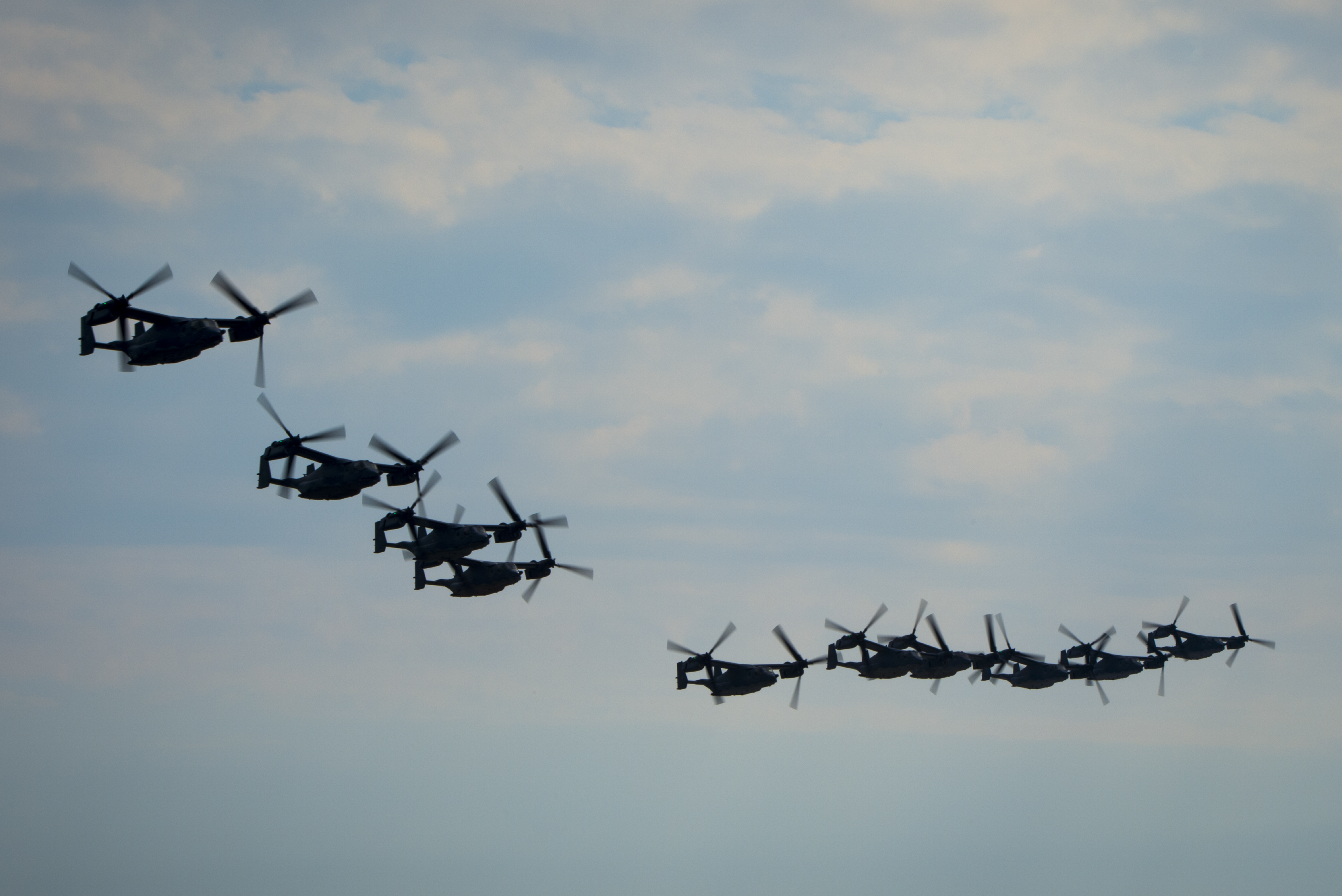 CV-22 Osprey assigned to the 8th Special Operations Squadron at Hurlburt Field, Fla., and the 20th SOS at Cannon Air Force Base, N.M., fly in formation over Hurlburt Field Feb. 3, 2017. This training mission was the first time in Air Force history that 10 CV-22s flew in formation simultaneously. (U.S. Air Force photo/Airman 1st Class Joseph Pick)